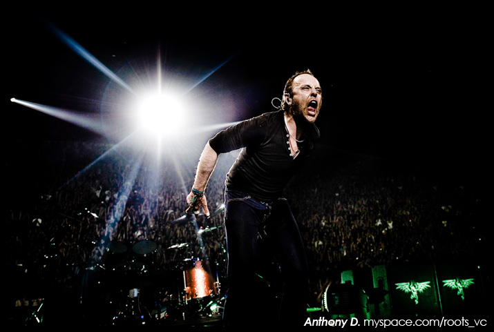 Lars Ulrich in Bercy (Paris) in 2009